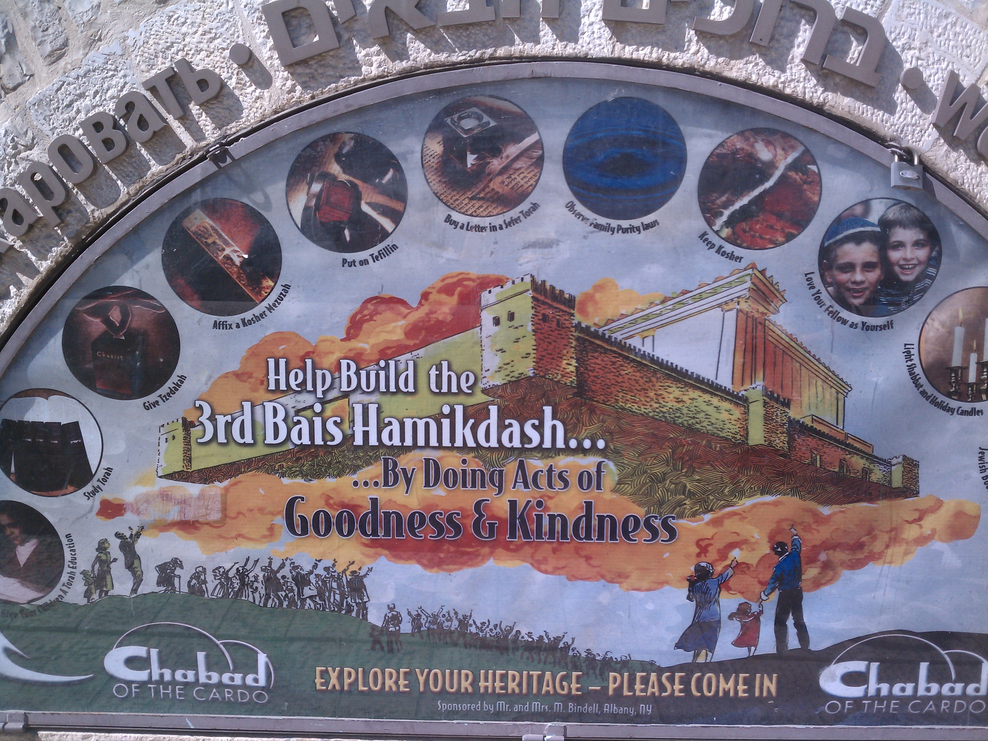 Entrance to a Chabad building, with an appeal to help building the third temple by acts of goodness and kindness.